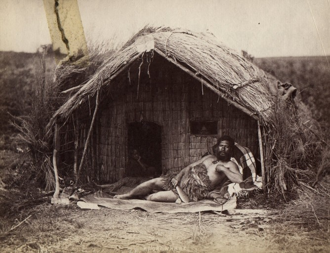 Maori. Habitation : les murs sont en bambou, le toit est recouvert de fibres végétales. L' homme est vêtu d' une sorte de pagne en fibres végétales ; il porte au cou un pendentif en jade et tient un massue. Maori dwelling: the walls are of raupo, the roof is covered with plant fibres. The man is wearing a sort of cloak of plant fibre; he is wearing at the neck a greenstone pendant and holds a mere, a club.